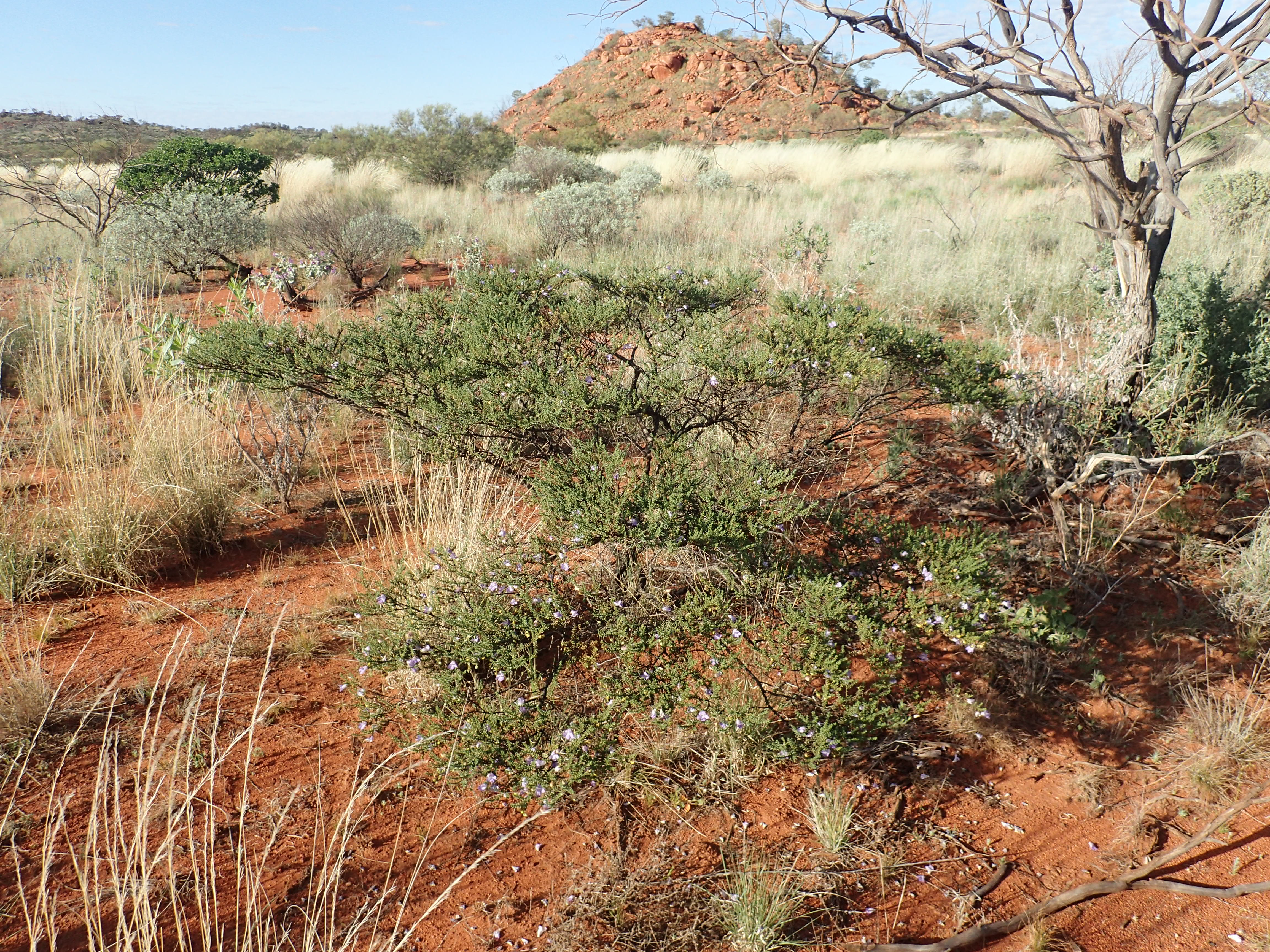 Eremophila exilifolia growing 30km south of Newman